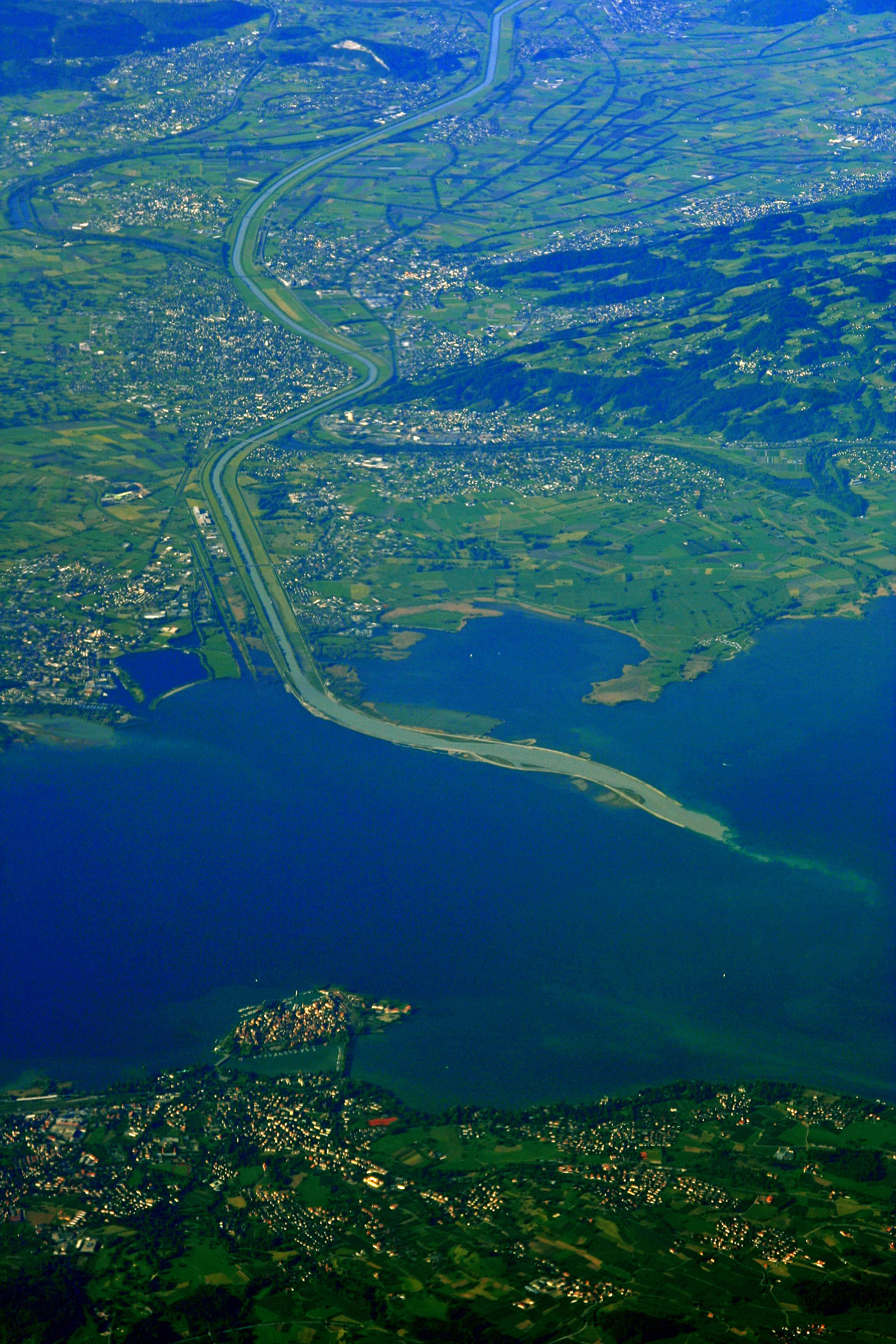 River Rhine and Lake Constance